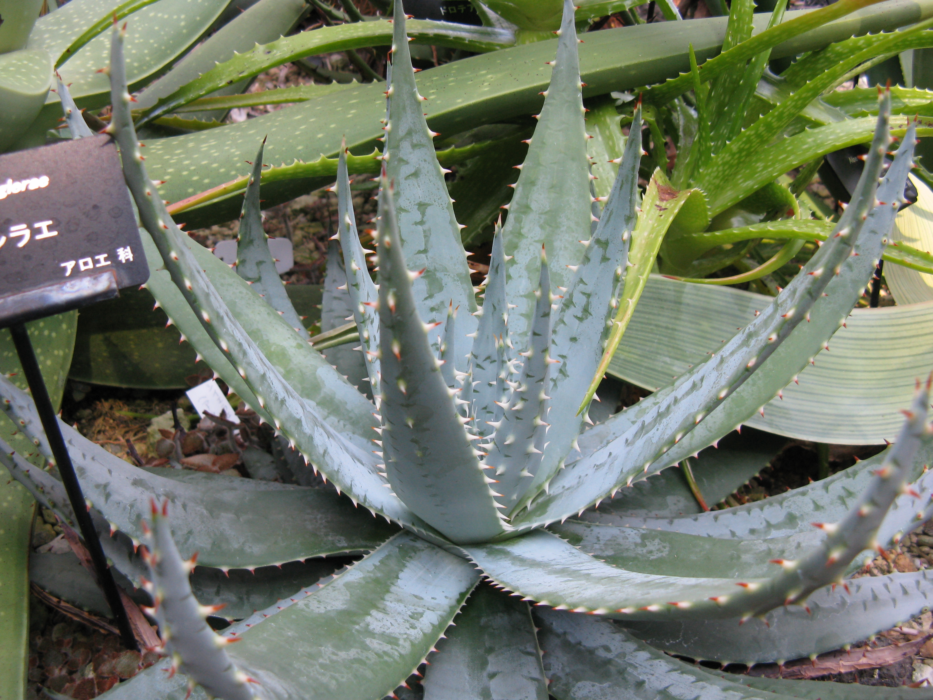 Aloe peglerae Place:Osaka Prefectural Flower Garden,Osaka,Japan